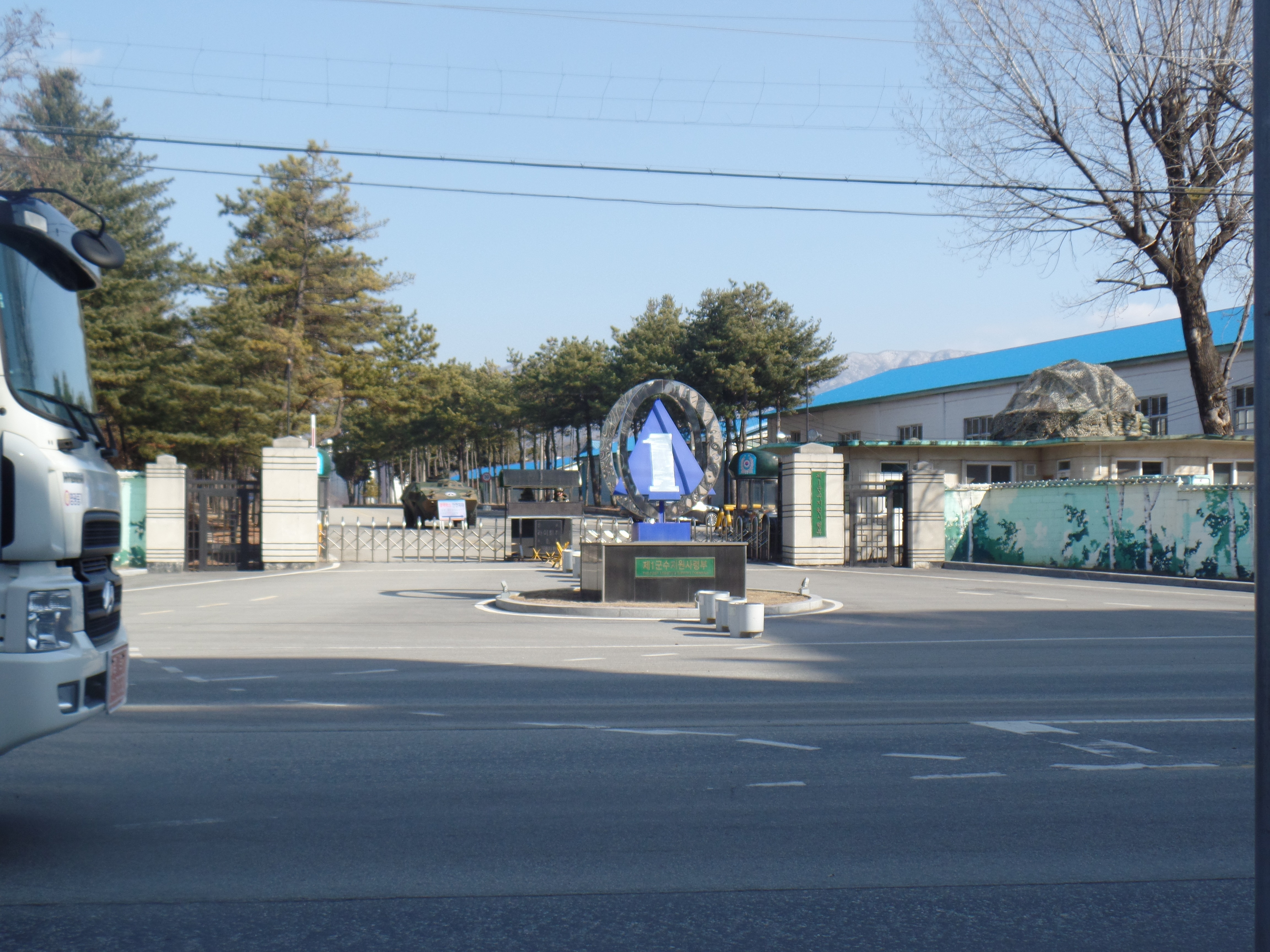 Main gate of Republic of Korea Army 1st Logistical Support Command